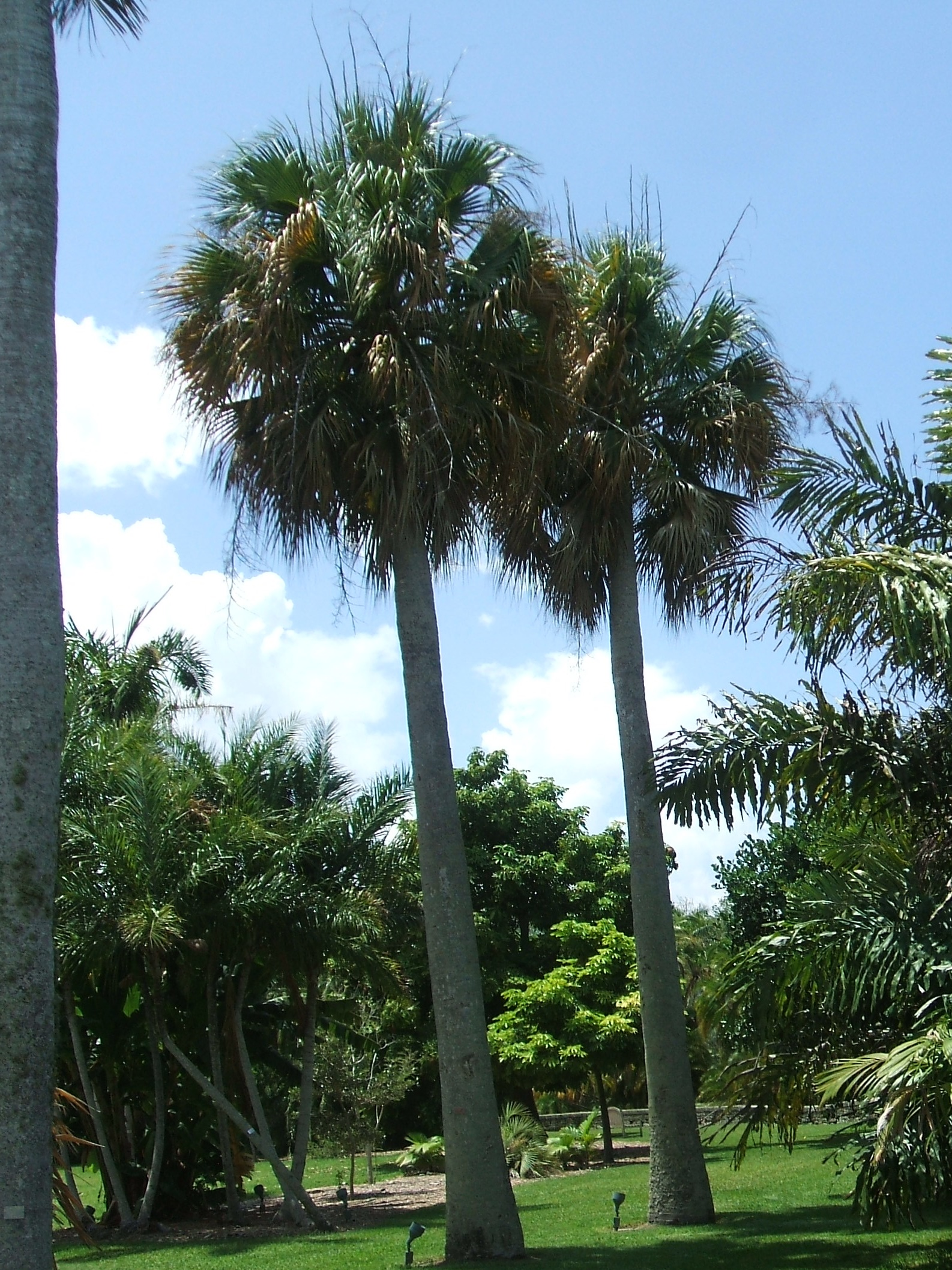 Sabal causiarum at Fairchild Tropical Botanic Garden, Coral Gables, Florida, USA.